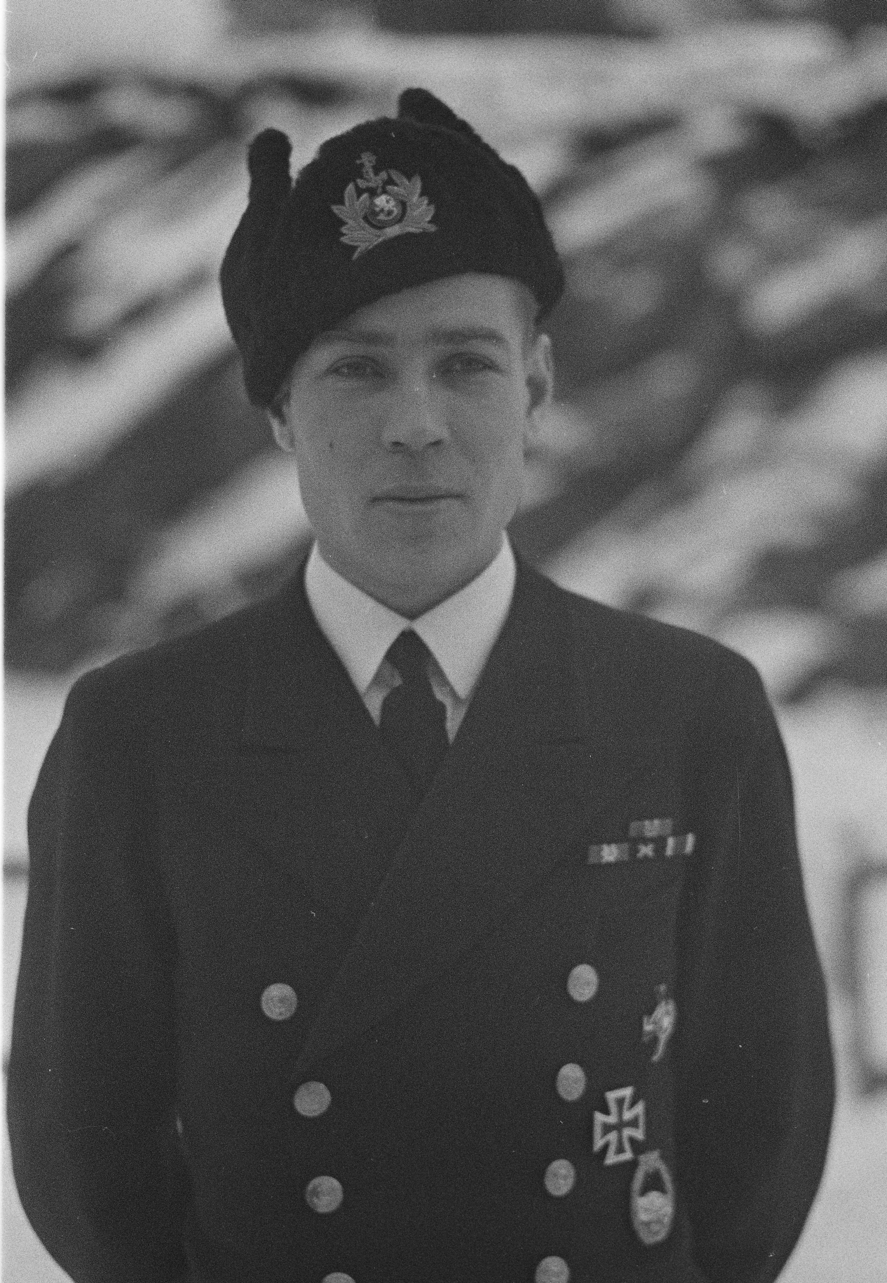 Jouko Pirhonen, Knight of the Mannerheim Cross #111